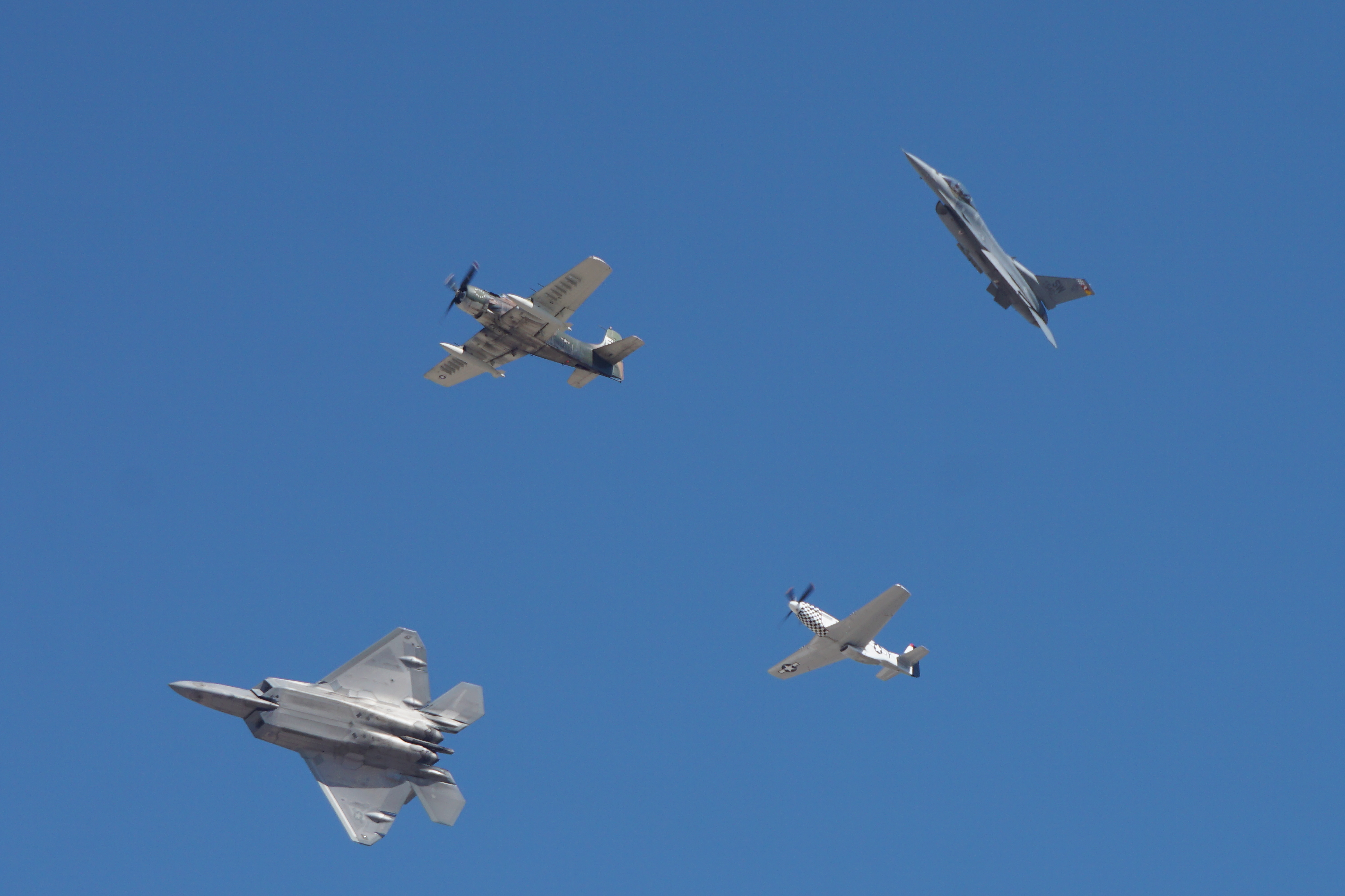 The United States Air Force Heritage Flight (a Douglas A-1 Skyraider, a General Dynamics F-16 Fighting Falcon, a Lockheed Martin F-22 Raptor, and a North American P-51 Mustang) at the 2019 Fort Worth Alliance Air Show at Fort Worth Alliance Airport in Fort Worth, Texas (United States).